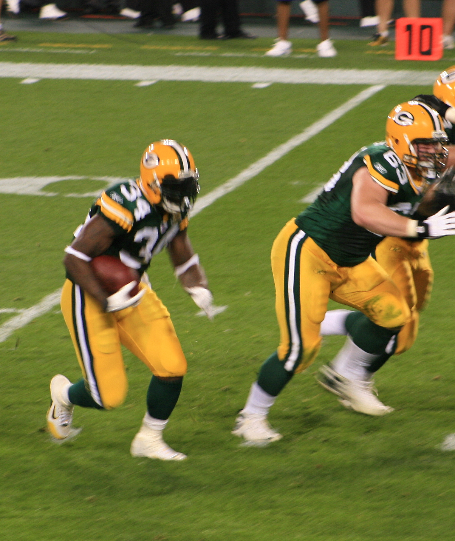 Vernand Morency rushing during a Green Bay Packers game.